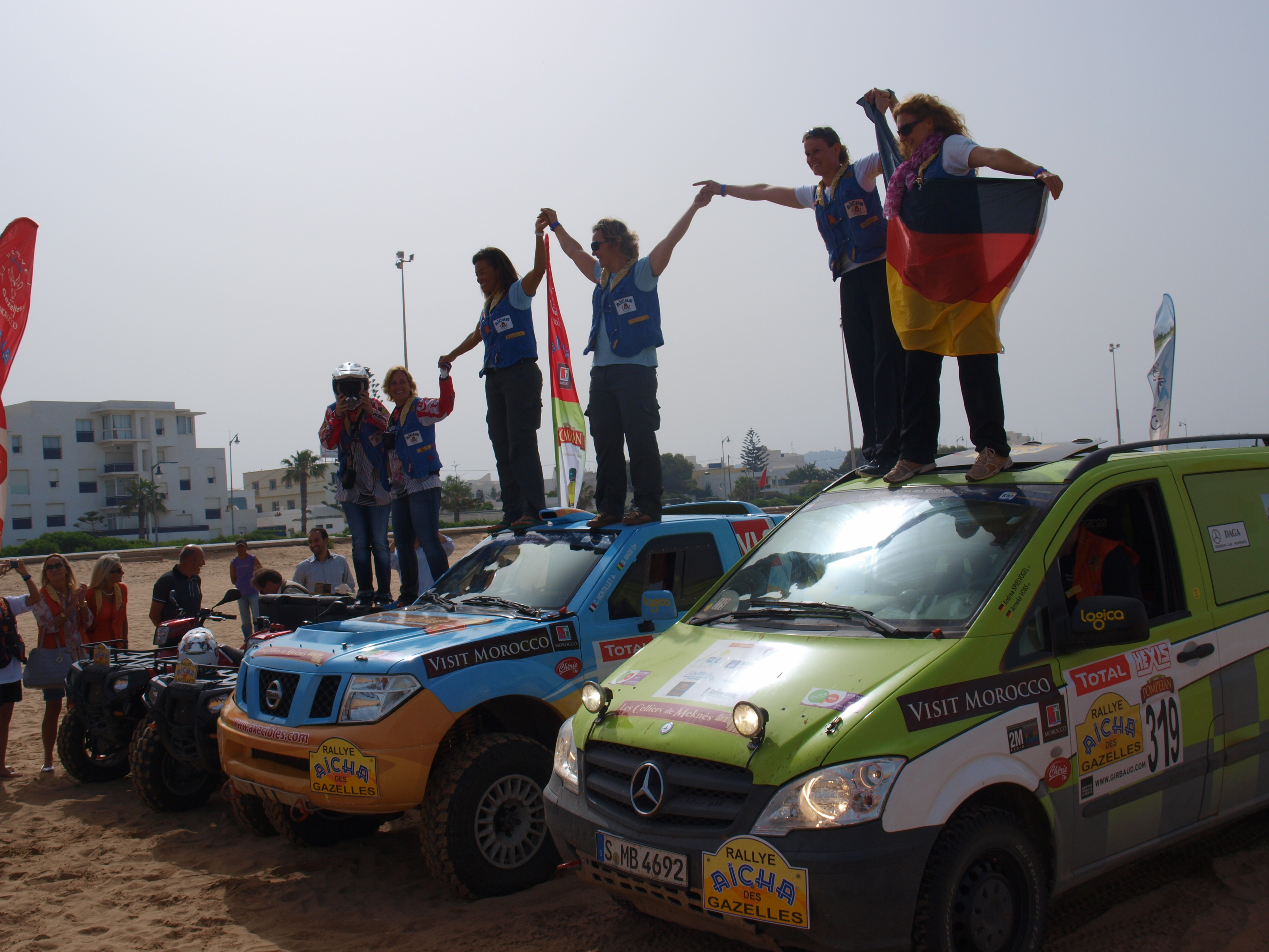 The winning teams 2011 at the beach of Essaouira: From left to right: Caroline Couet-Lannes & Betty Kraft on Polaris Sportsman 850 xps, Syndiely Wade & Carole Montillet on Nissan Springbok (Nissan Navara (D40) based), Anneke Voss & Andrea Spielvogel on Mercedes-Benz Vito (W639) 4x4